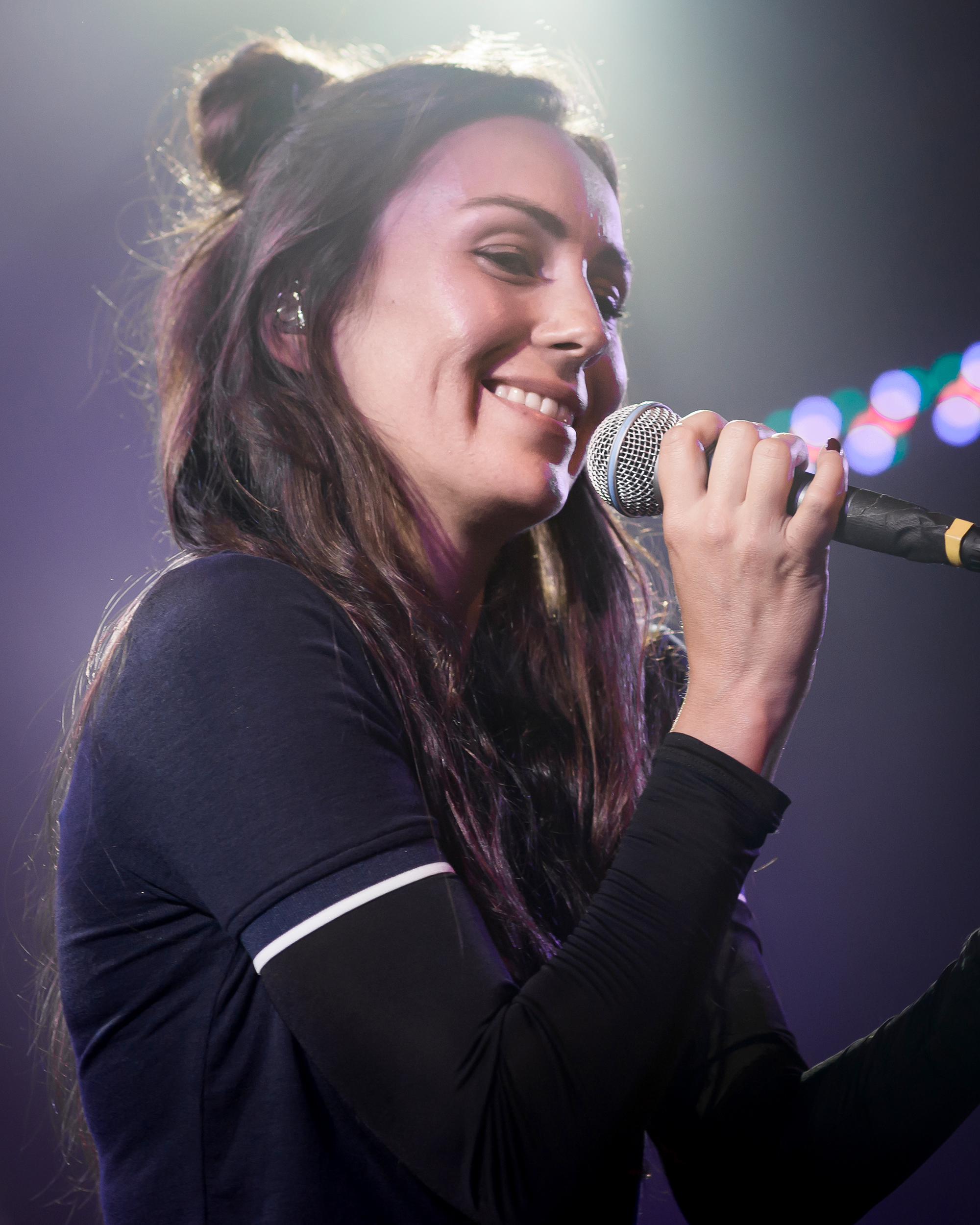 Amy Shark performing live at The Troubadour in Los Angeles, California, on Tuesday, February 20, 2018.